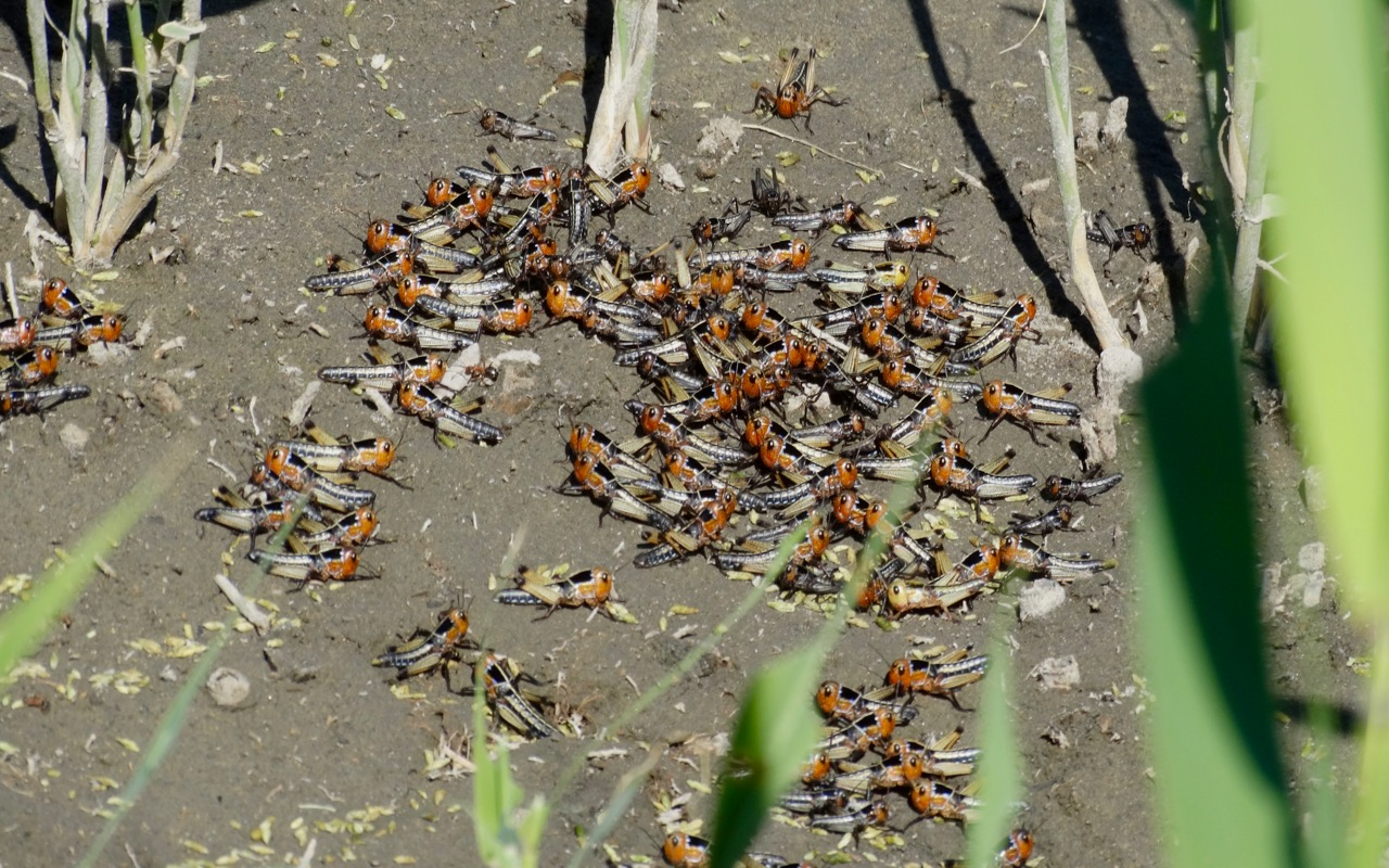 Part of hopper band of Locusta migratoria migratoria photographed near Zhideli, Lake Balkhash, Almaty Region, Kazakhstan